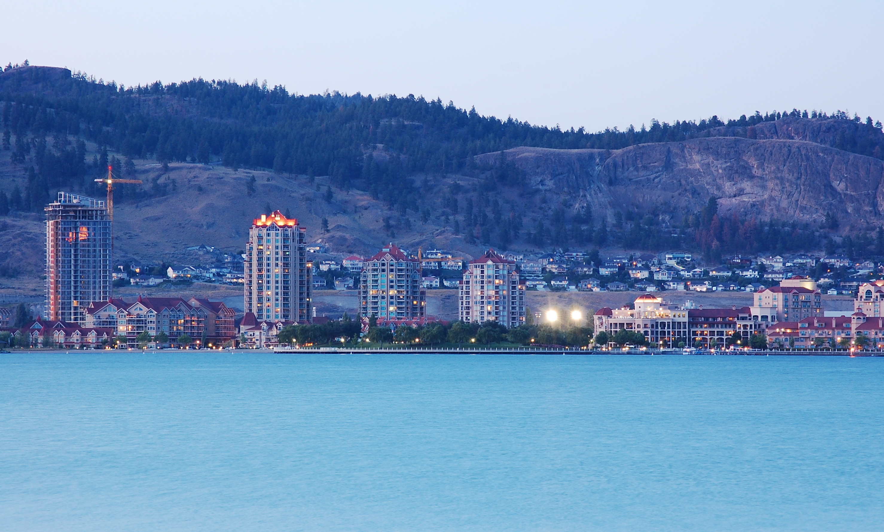 An image of Kelowna's skyline as seen from Westbank.